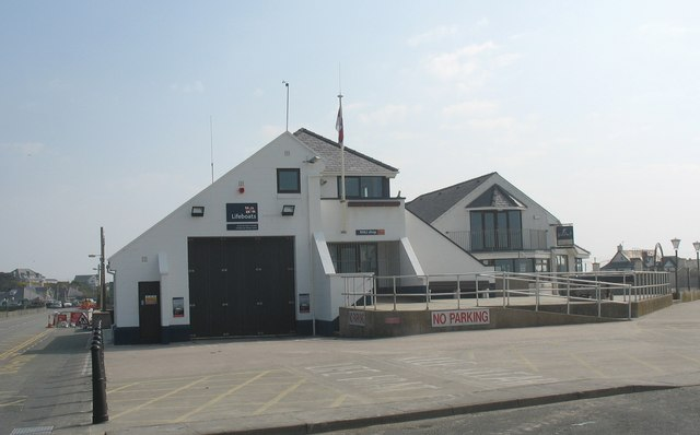 The main IRB boathouse at Trearddur Established in 1967, this is the only lifeboat station between Holyhead and Porthdinllaen. This elegant building, the main boathouse, houses an Atlantic 75 inshore rescue boat.